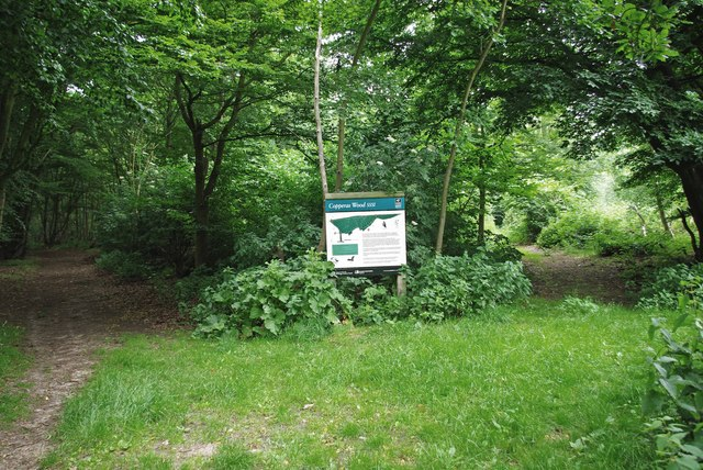 Copperas Wood Copperas Wood is a 34 acre nature reserve owned by Essex Wildlife Trust to find out more Continue on a virtual tour of Wildlife Trust Reserves in Essex by visiting 1906063